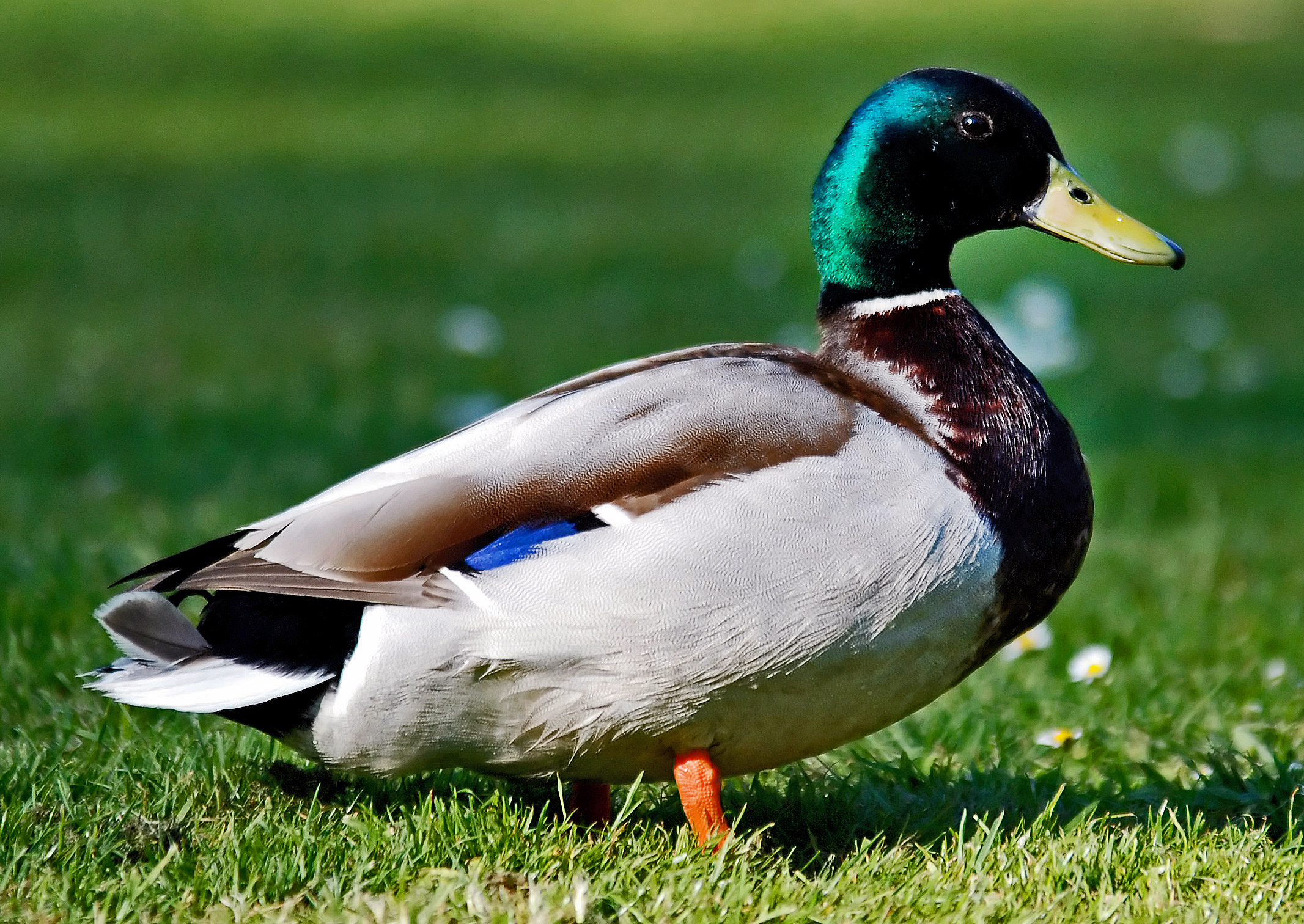 Male Mallard. Picture taken in "Botaniska Trädgården", Lund, Sweden.